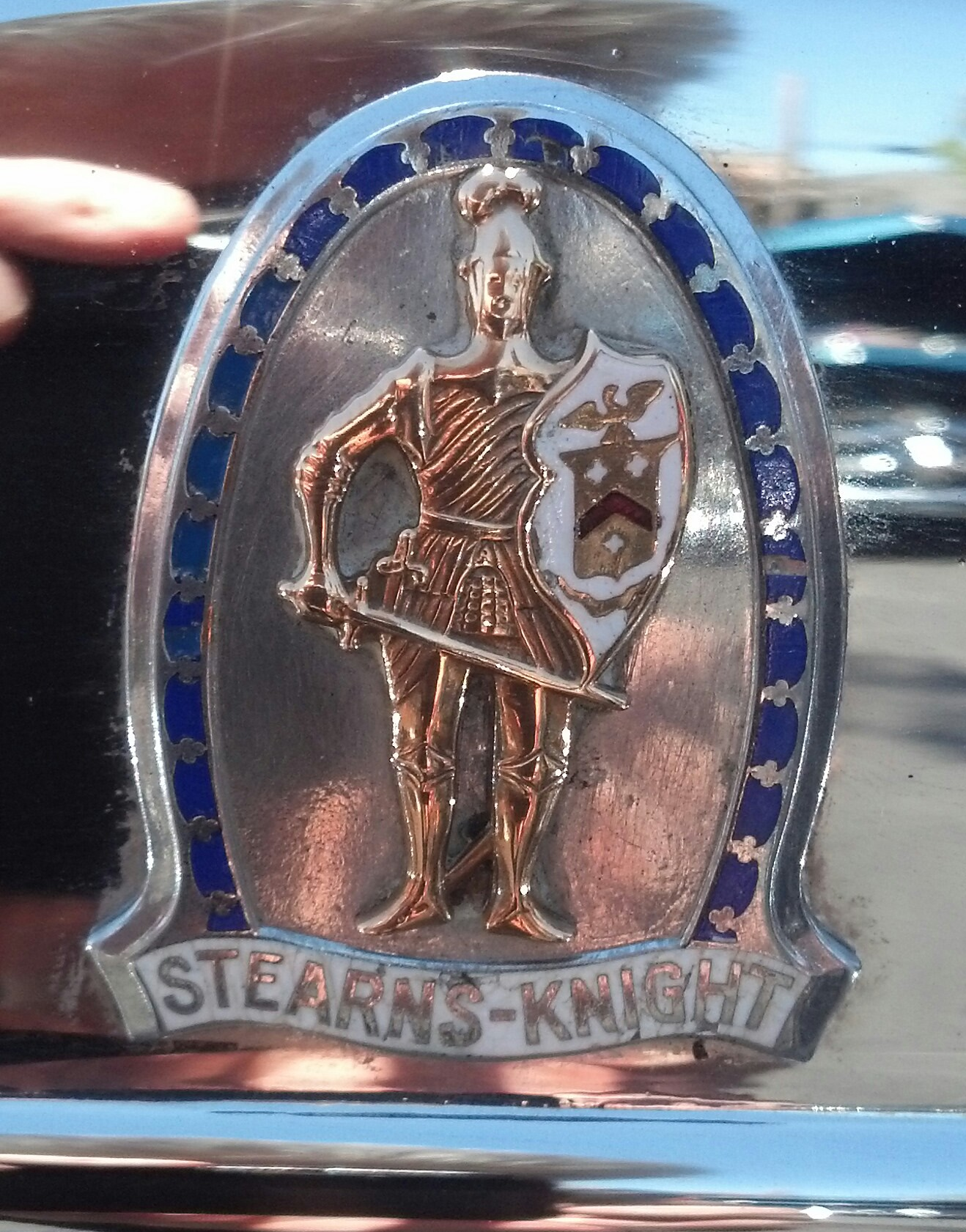 The emblem on a 1929 Stearns Knight 7 passenger sedan, on display in Yountville, California. Photo by Jim Heaphy.